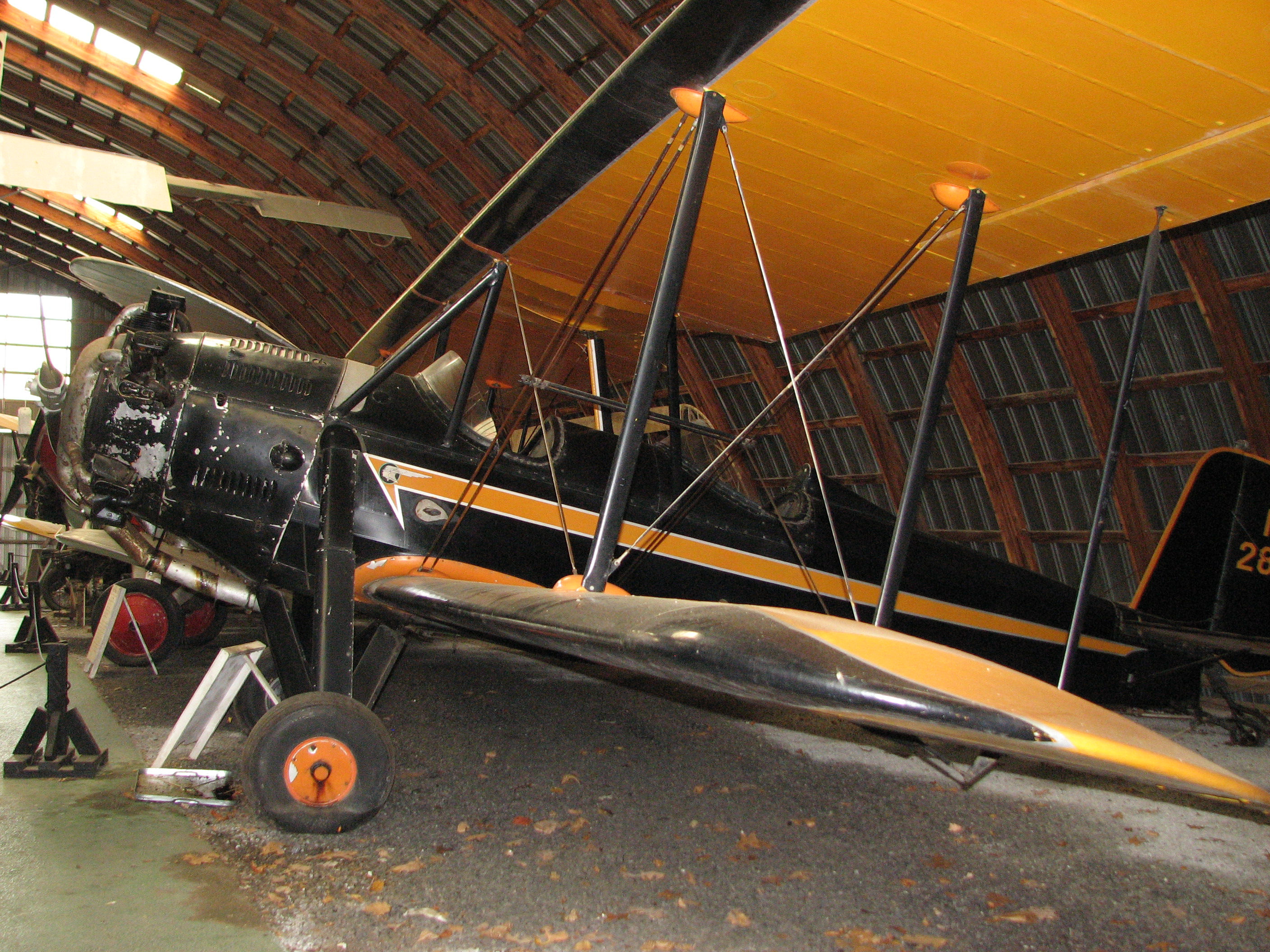 Spartan C3-165 msn 120 NC285M, at the Old Rhinebeck Aerodrome in Poughkeepsie, New York., photo taken between 2004 and 2008